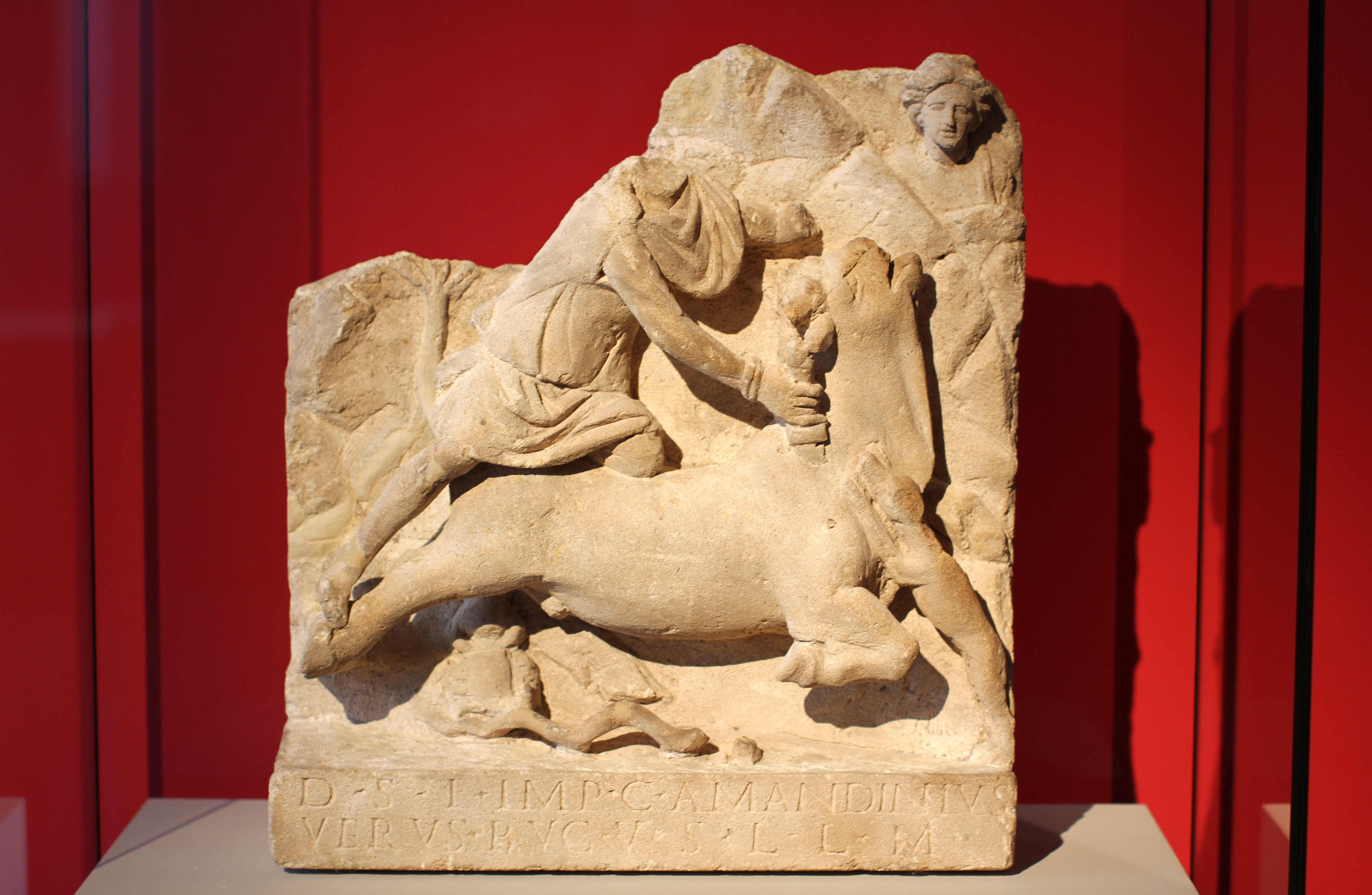 Mithras killing the sacred bull(c. 200 AD)